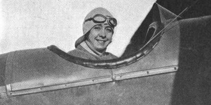 Jane Herveux (generally known as Jane Herveu), formerly of France, later of the United States, from a 1921 publication.